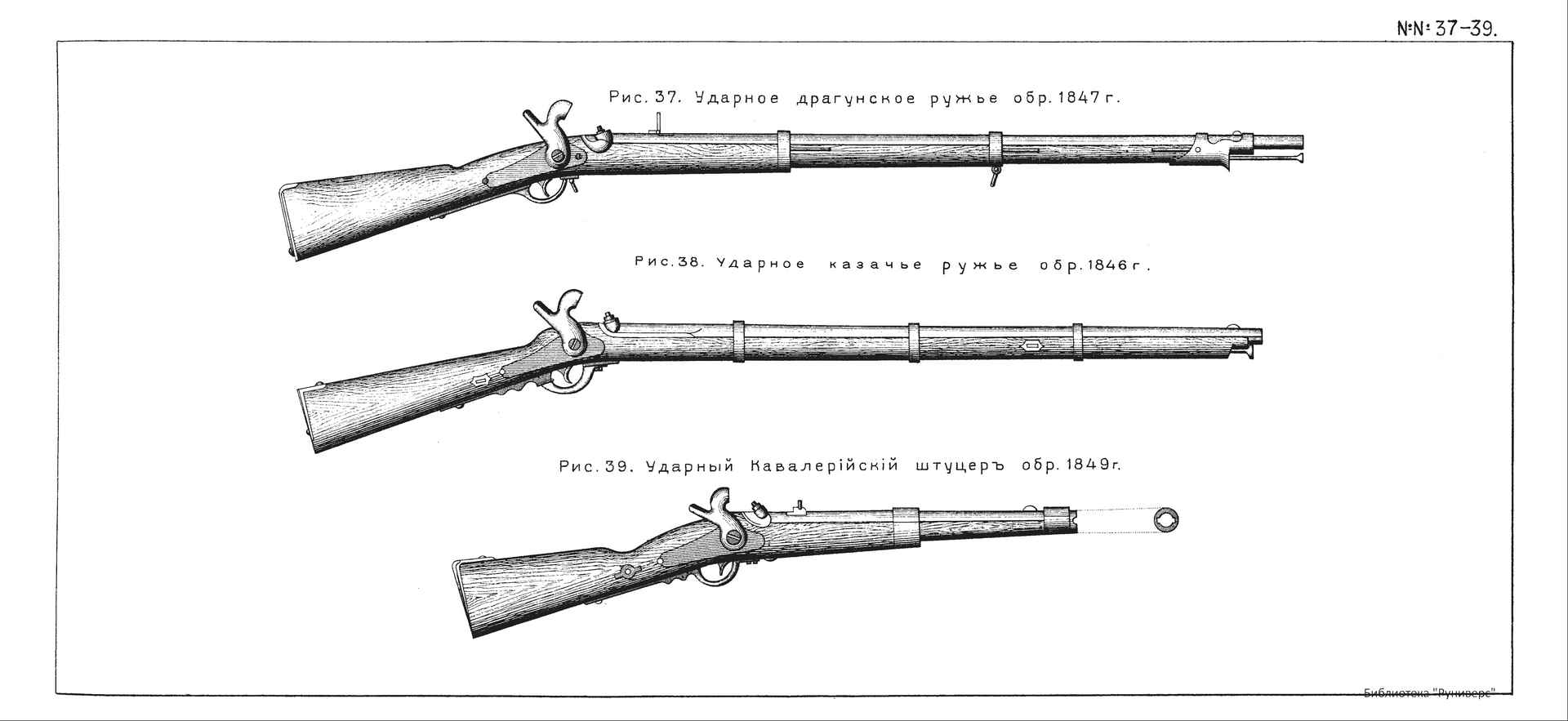 Russian Army percussion guns: dragoon M.1847, Cossacks M.1846, cavalry rifle M.1849.